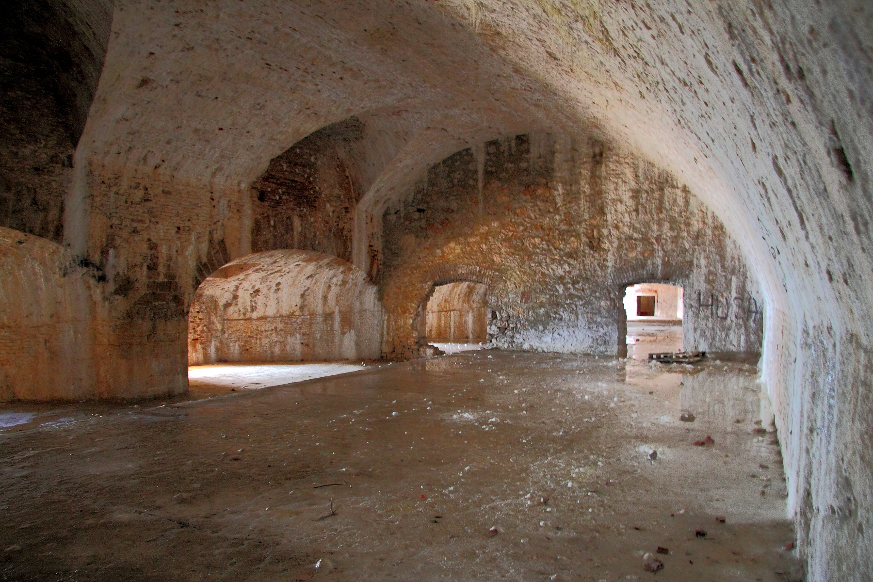 St. Nicholas Fortress interior